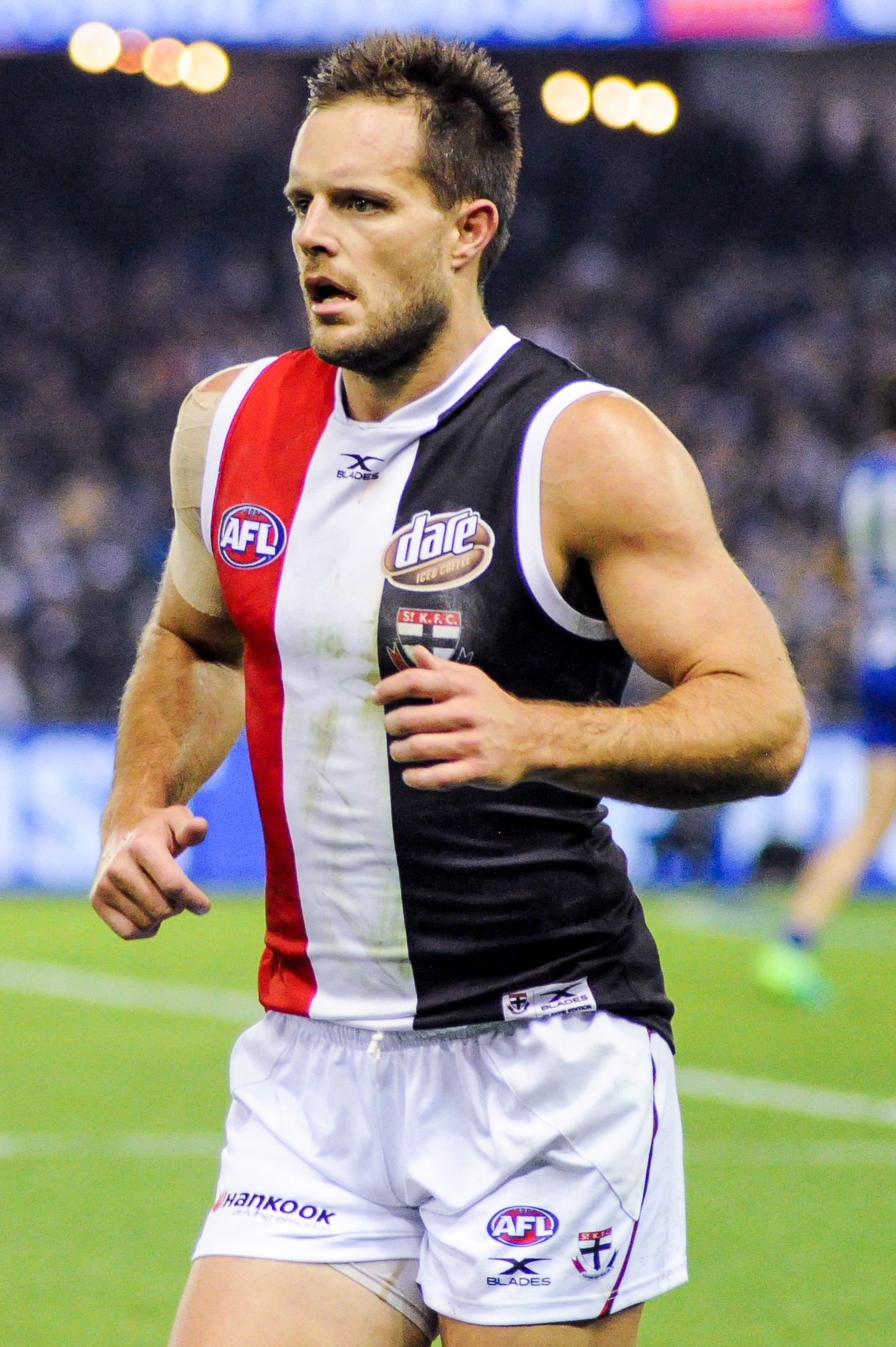 Nathan Brown during the AFL round thirteen match between North Melbourne and St Kilda on 16 June 2017 at Etihad Stadium in Melbourne, Victoria.